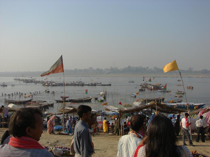 The Sangum, a holy gathering place for Hindus at the confluence of two rivers, located in Allahabad, India.